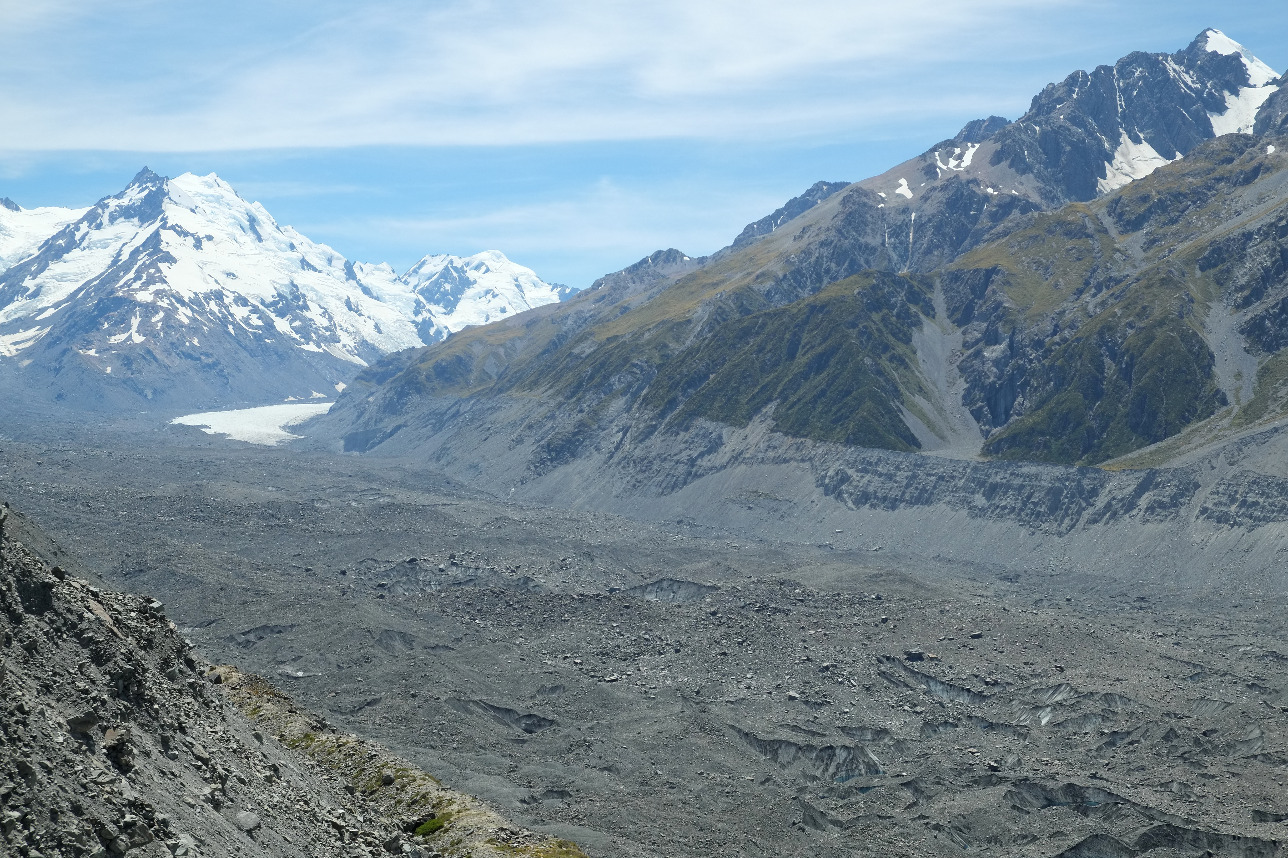 Lower Tasman Glacier towards Minarets, approximately 4 km wide at this point. The slow-moving glacier ice has over time been completely covered with gravelly debris up to where it curves out of the upper valley, visible in the distance. Malte Brun Range on the right.